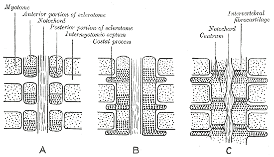 Scheme showing the manner in which each vertebral centrum is developed from portions of two adjacent segments.